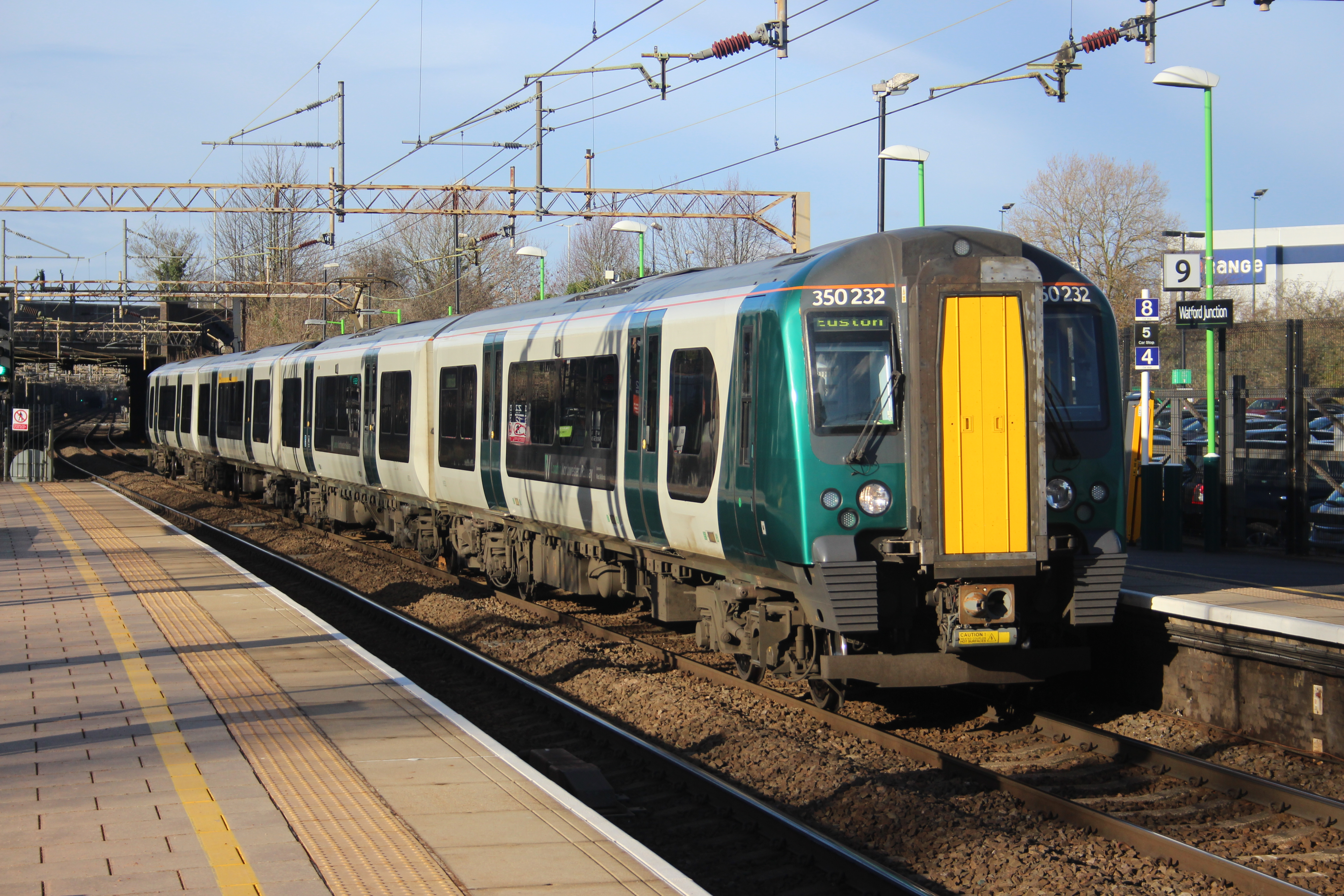 350232 at Watford Junction, working a service to the capital's London Euston station.